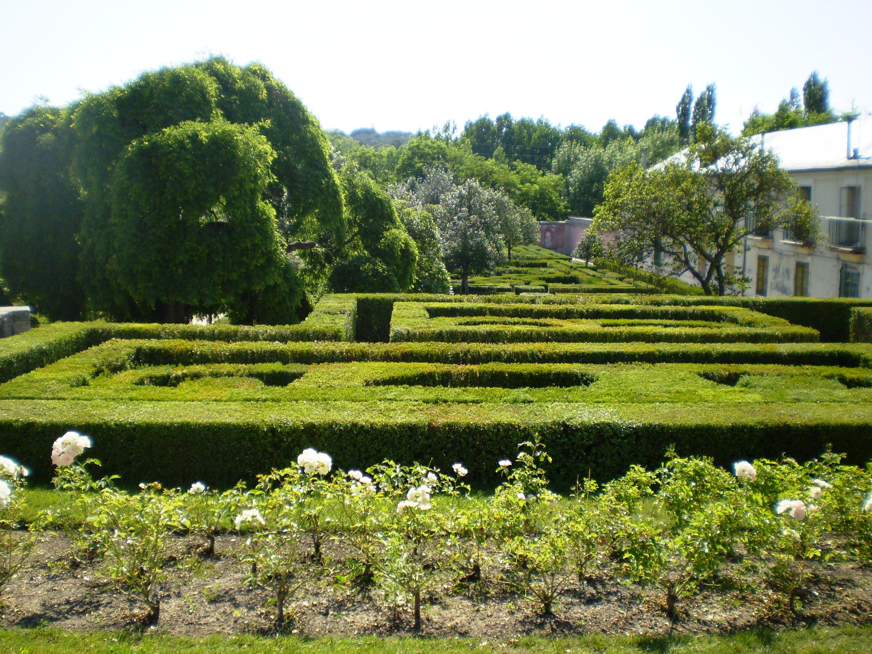 Gardens of Casita del Príncipe. El Pardo (Madrid)